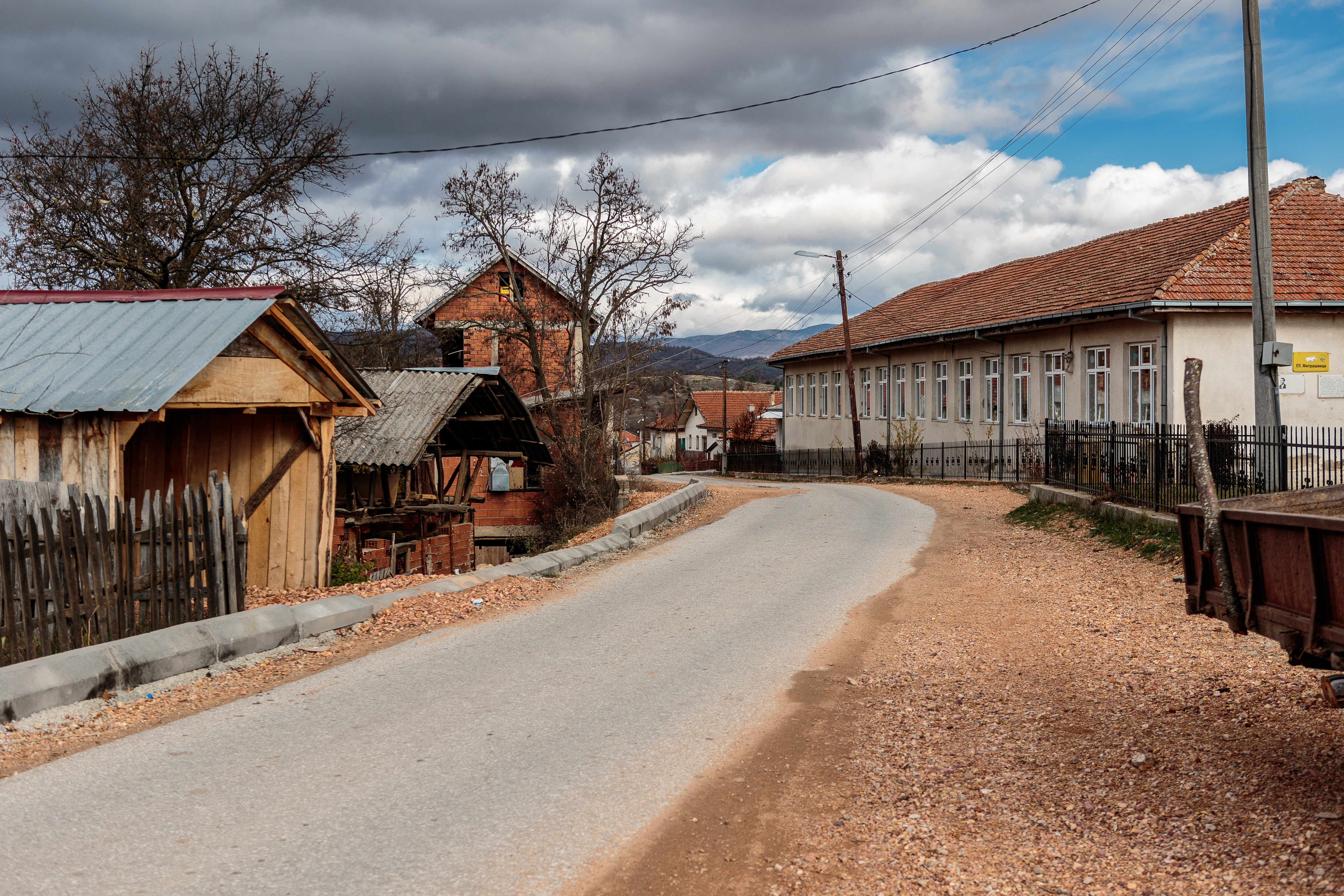 Primary school in the village of Mitrašinci, Maleševija, Macedonia